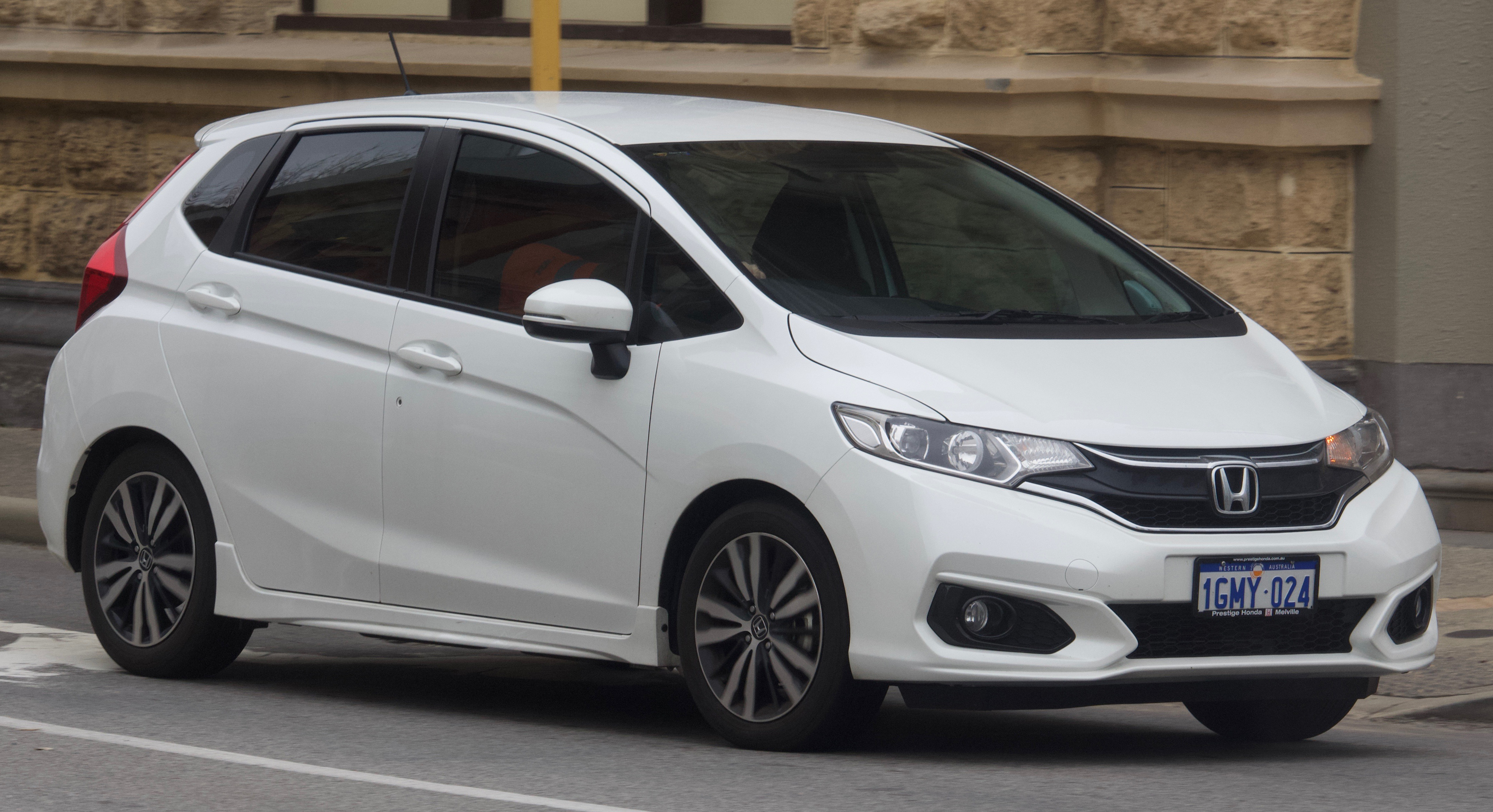 2018 Honda Jazz (GK5 MY18) VTi-S hatchback. I believe this is the VTi-S due to the omission of LED lights. Photographed in Fremantle, Western Australia, Australia.